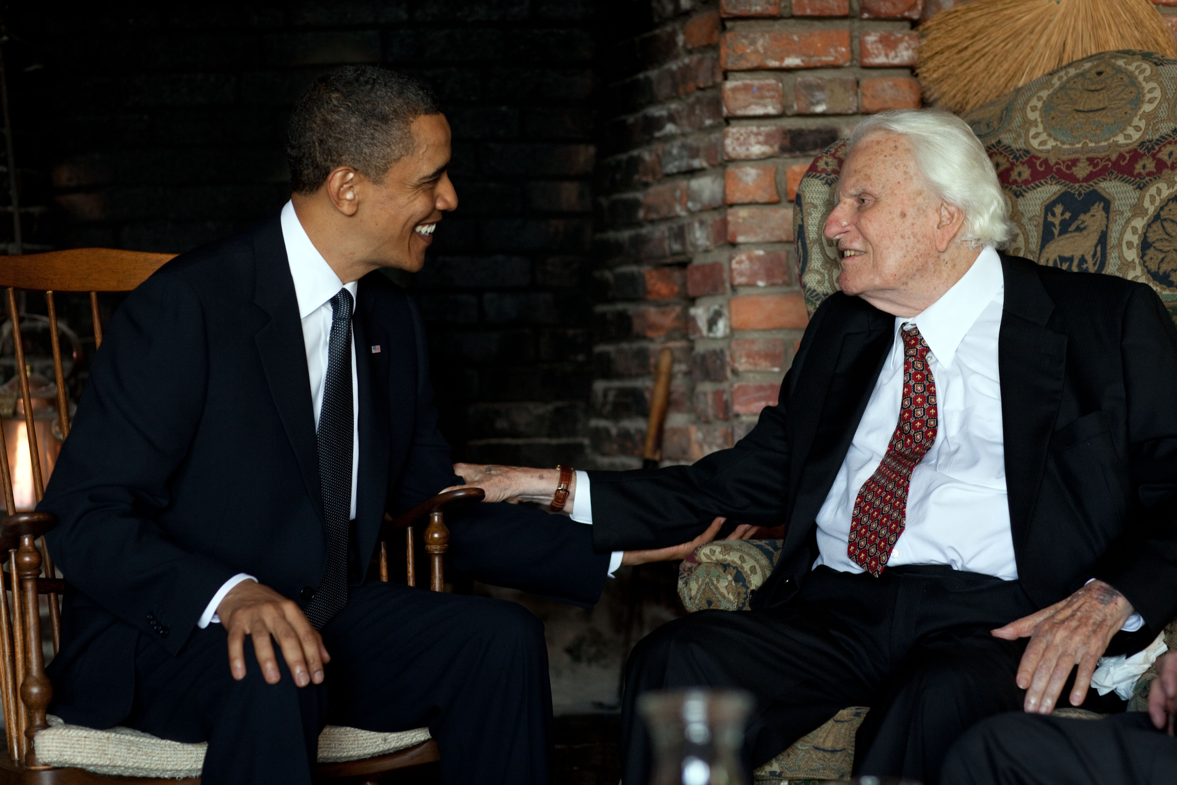 President Barack Obama meets with Rev. Billy Graham at his house in Montreat, N.C., April 25, 2010. (Official White House Photo by Pete Souza)